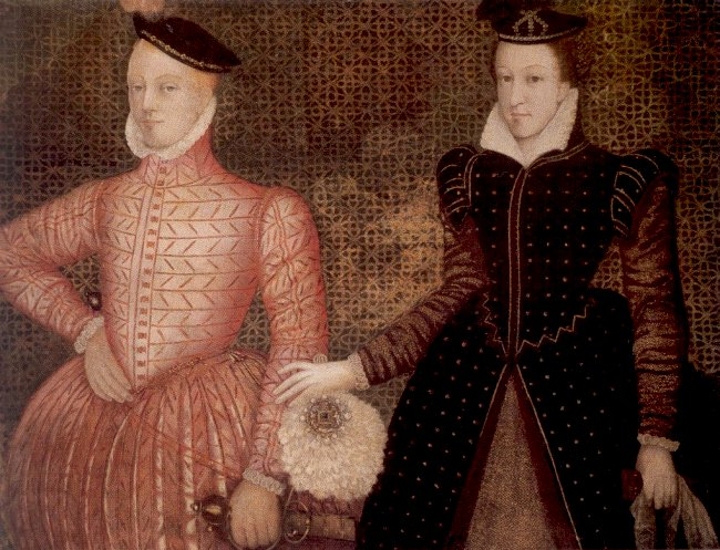 Mary, Queen of Scots, and her second husband Henry Stuart, Lord Darnley, parents of King James VI of Scotland, later King James I of England. Lord Darnley is on the left, Queen Mary on the right.